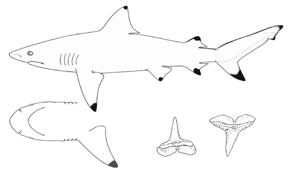 Smoothtooth blacktip shark (Carcharhinus leiodon)